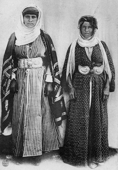 A post-card by the Capucin Mission, of two Syrian Christian women from the rural region of Mardin in south-east Turkey, 1905.The ancient city of Mardin was the home the the Syrian Patriarch,at Deir al-Zaafran,and the highest concentration of Syrian Christians [Monophysite ] were to be found to the east of Mardin in the Tur-Abdeen [ the mountain of the worshipers ] region,since the 5-7th. centuries.The Syrian Christians,many of who fled to Syria during W.W.1 and the remaining emigrated in mass to Europe,canada and the U.S.A. The area is dotted with many monasteries and churches dating back to the 5-8 th.centuries and later.